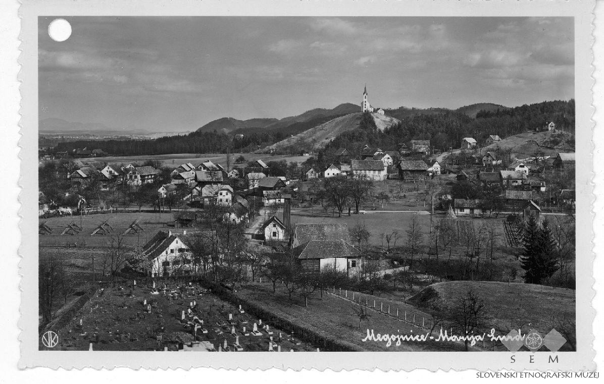 Postcard of Migojnice